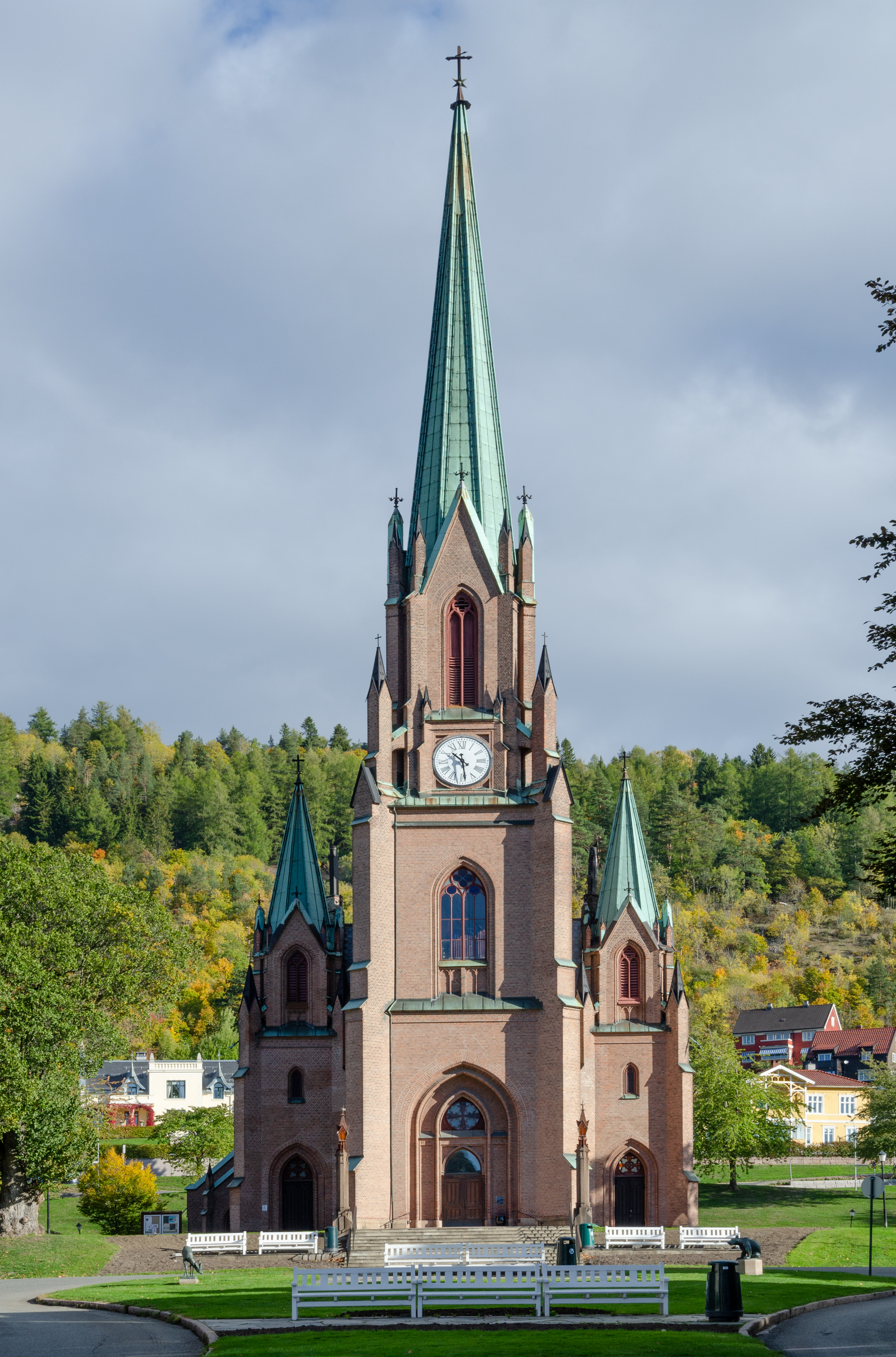 Bragernes church seen from the south.